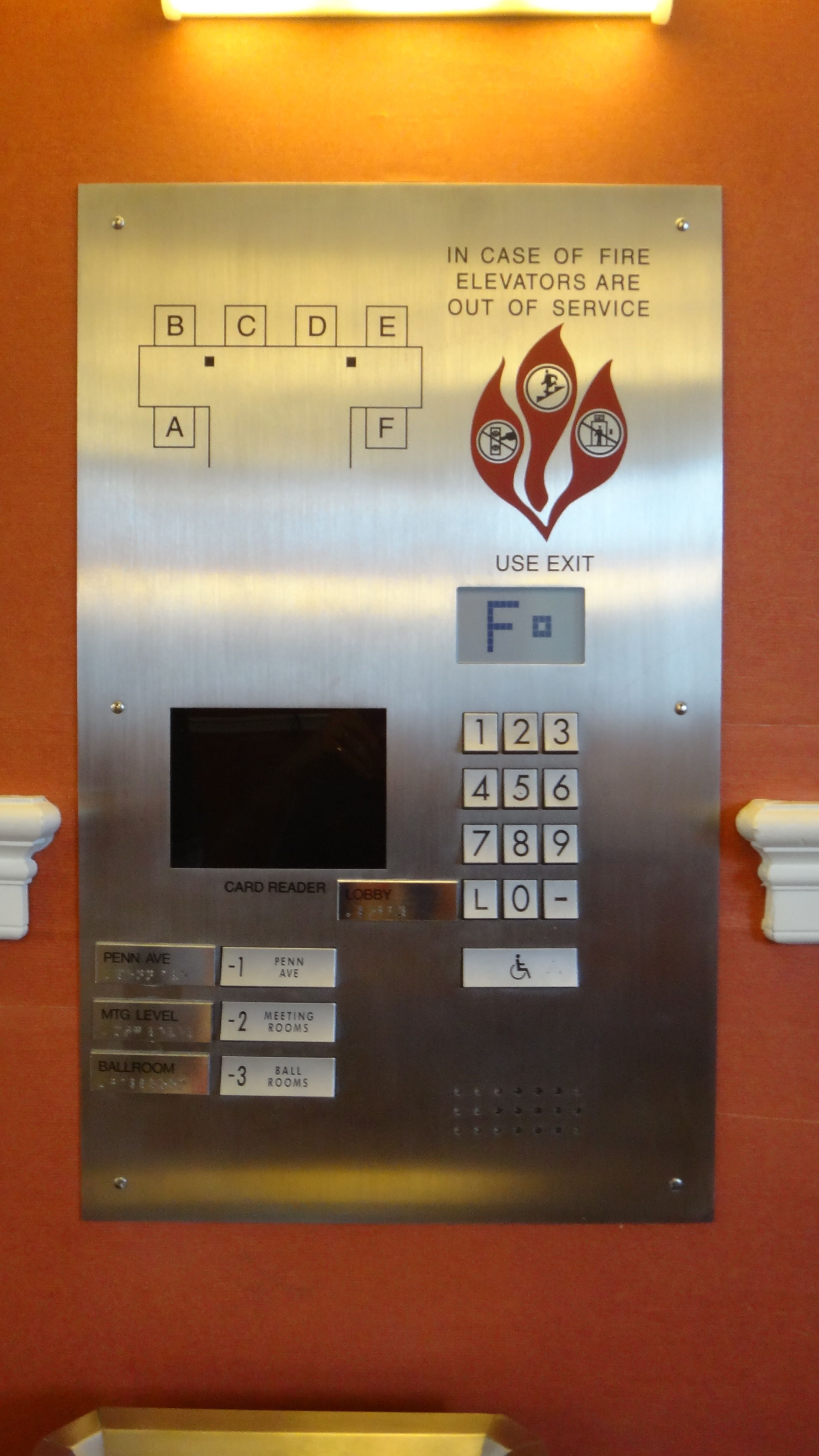 This is Schindler Miconic 10 call station